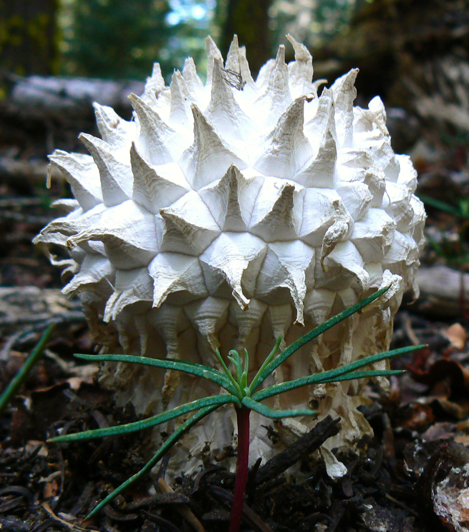 The puffball mushroom Calvatia sculpta (Harkness) Lloyd. Photographed in Sequoia National Park, Tulare County, California, United States. "Notes: Photo taken in Sequoia National Park north of Wuksatchi Lodge on the Twin Lakes trail, at about 7500 ft elevation." Original photo cropped by uploader.